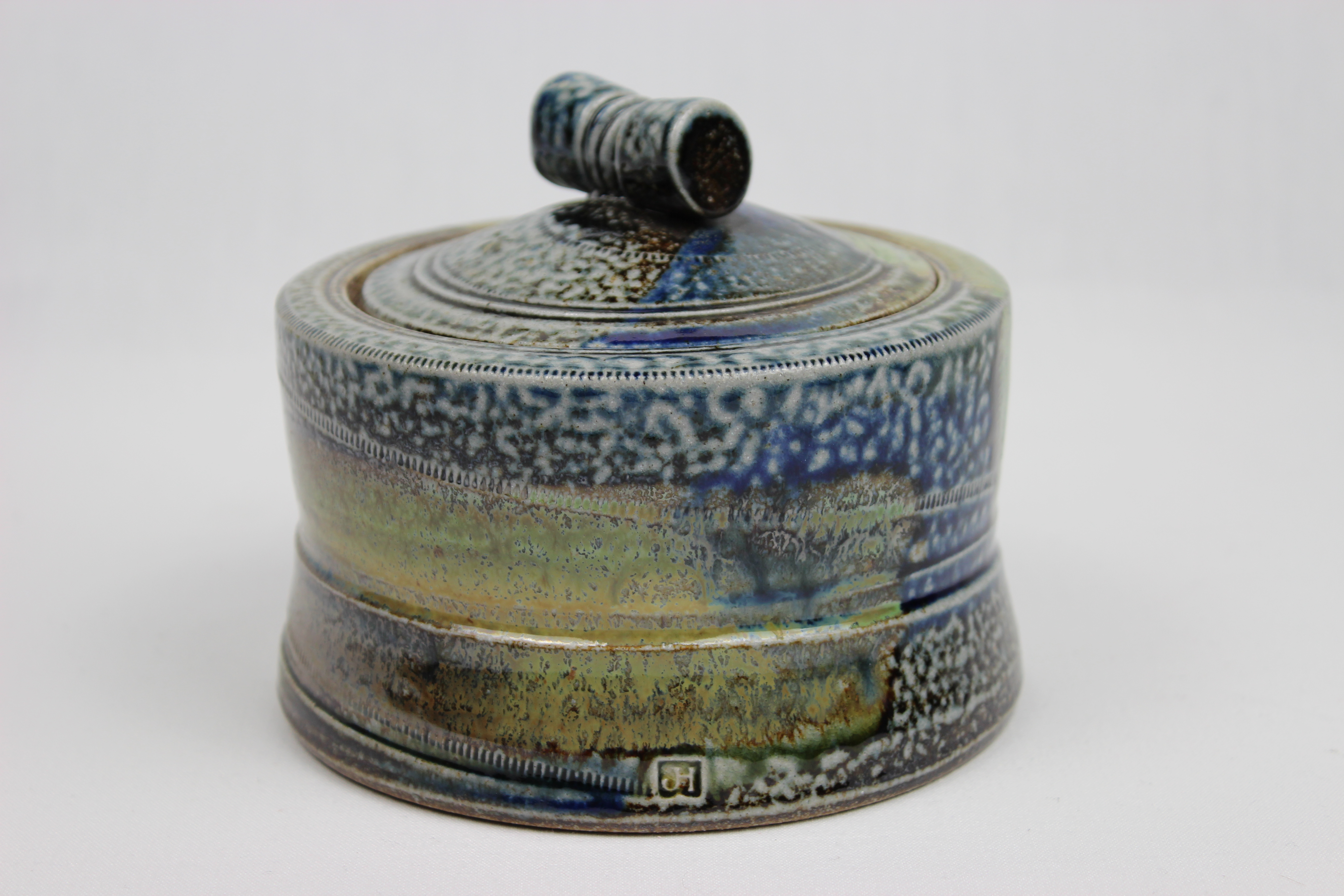 Lidded box or pot with colourful green and blue salt glaze on exterior and orange inside. Barrel shaped knob. From the W.A. Ismay Studio Ceramics Collection at York Art Gallery